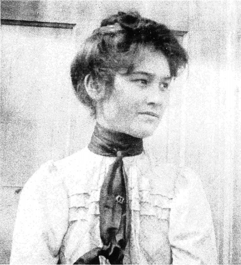 A photograph portrait of Florence Shotridge (birth name Kaatkwaaxsnéi) attributed to George Thornton Emmons. Provided by the Royal British Columbia Museum which includes the caption: "L.S's [Louis Shotridge's] wife, 1900, Chilkoot, Alaska.